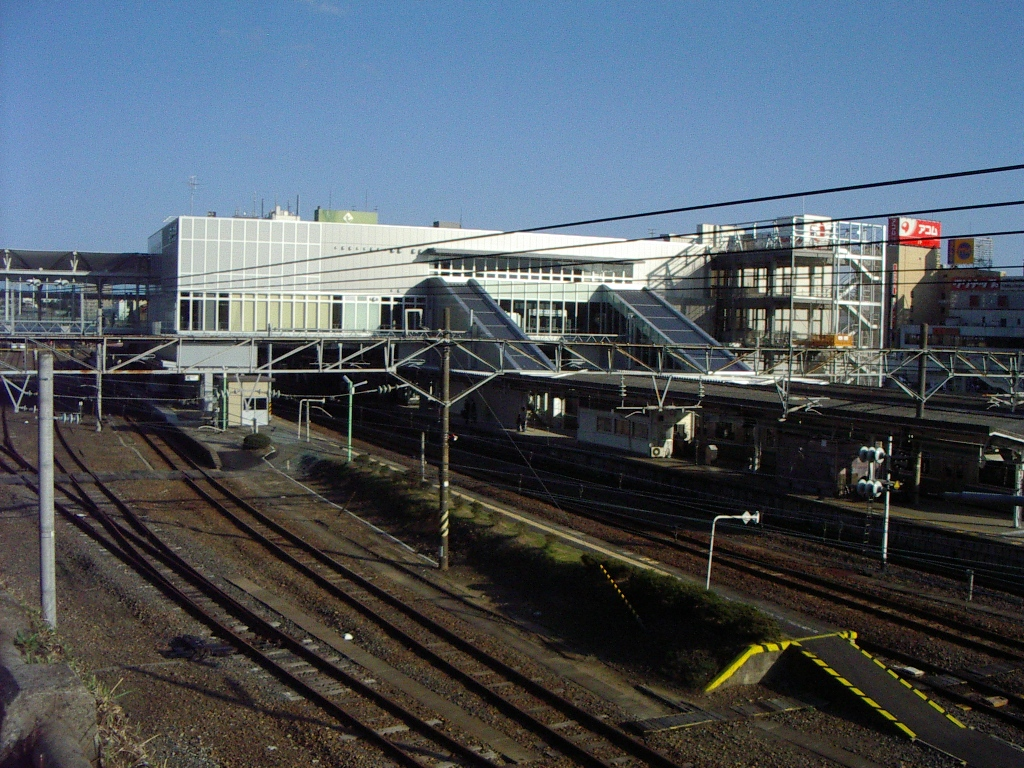 JR Iwaki station on JR Joban line and Banetu-tou Line. This station is located at Iwaki, Fukushima.